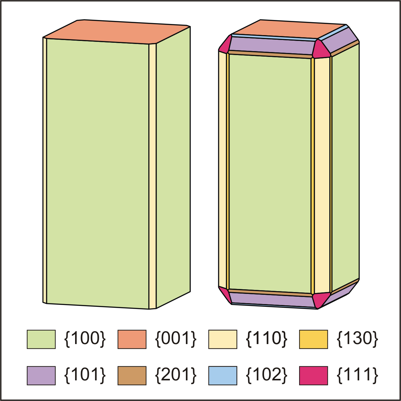 Drawing of two carletonite crystals; reference: L. Horváth (2003), Mineral Species discovered in Canada, page 35